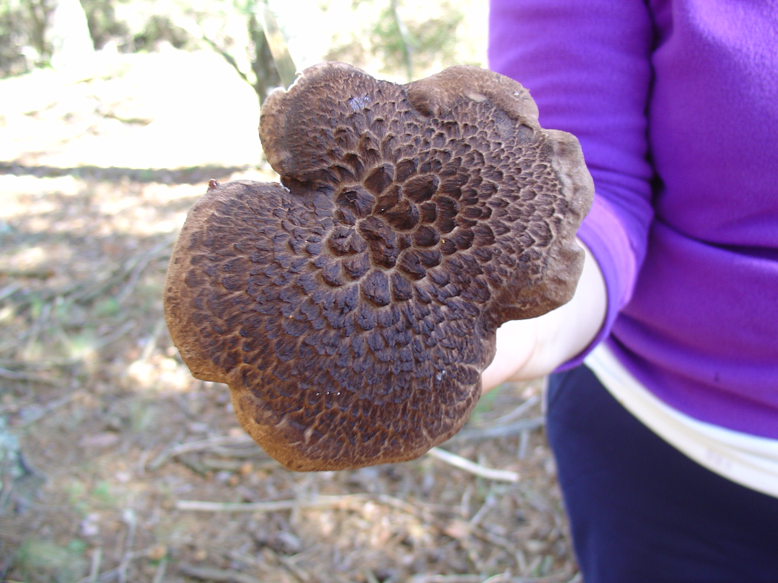 Hydnum sp from Cuenca, Spain. See also Hydnum2